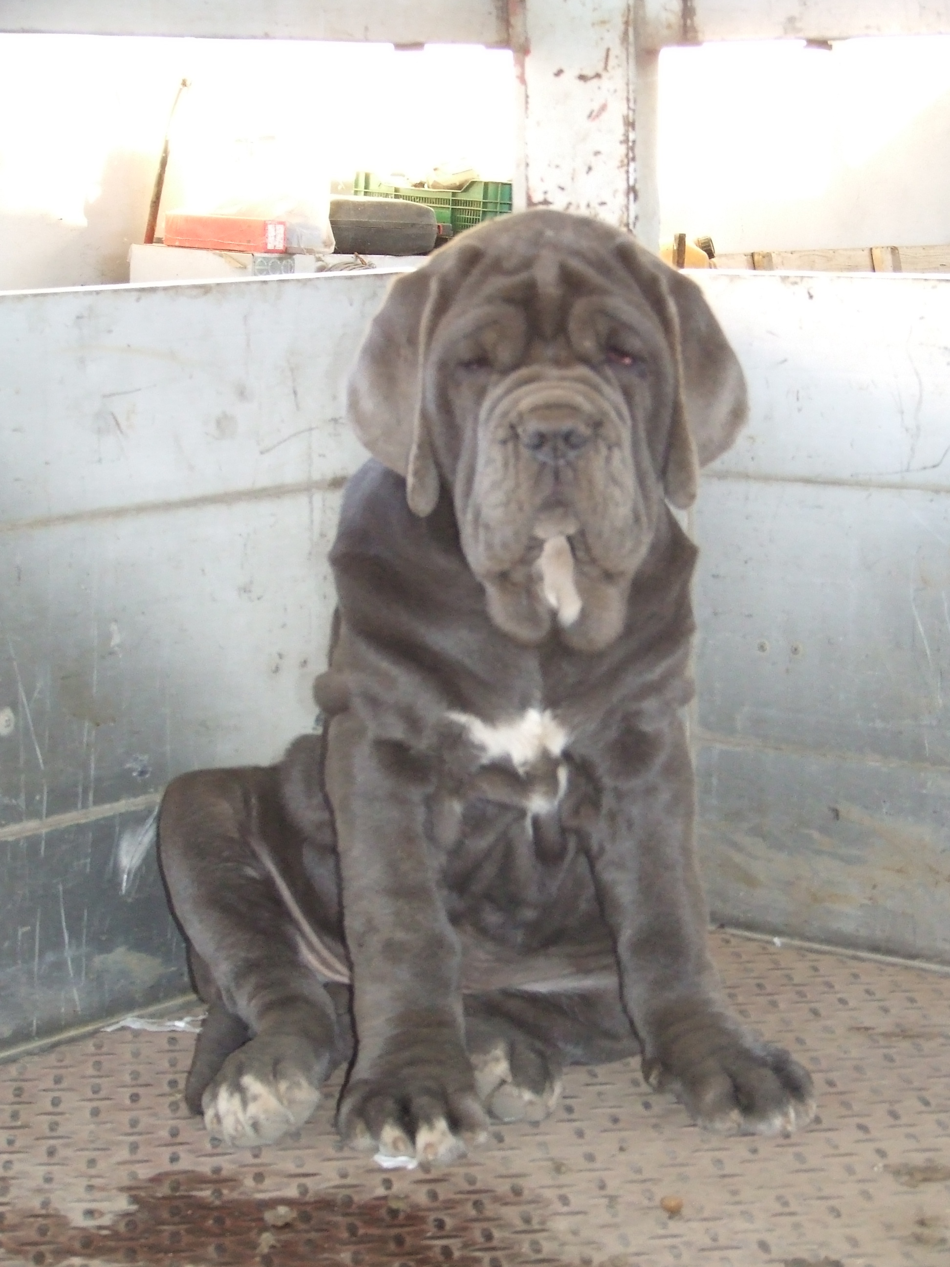 Photo by me Philip Thompson of Anacronismo Mastino during a visit to Caserta Napoli October 15th 2007 A "blue" Neo puppy